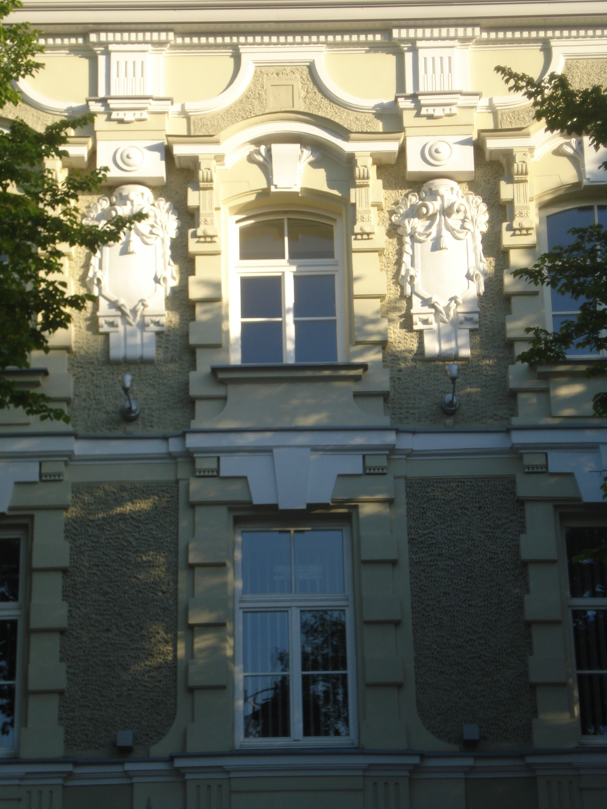 Detail of the facade of the building of the Ministry of the Interior of the Republic of Lithuania. Šventaragio str. 2, Vilnius